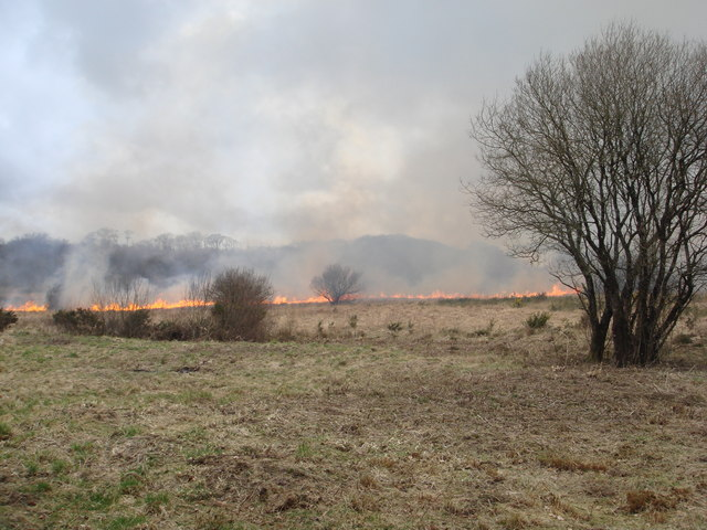 Culm Grassland Management at Stowford Moor Nature Reserve Devon Wildlife Trust staff undertake a controlled burning as part of the culm grassland management cycle.